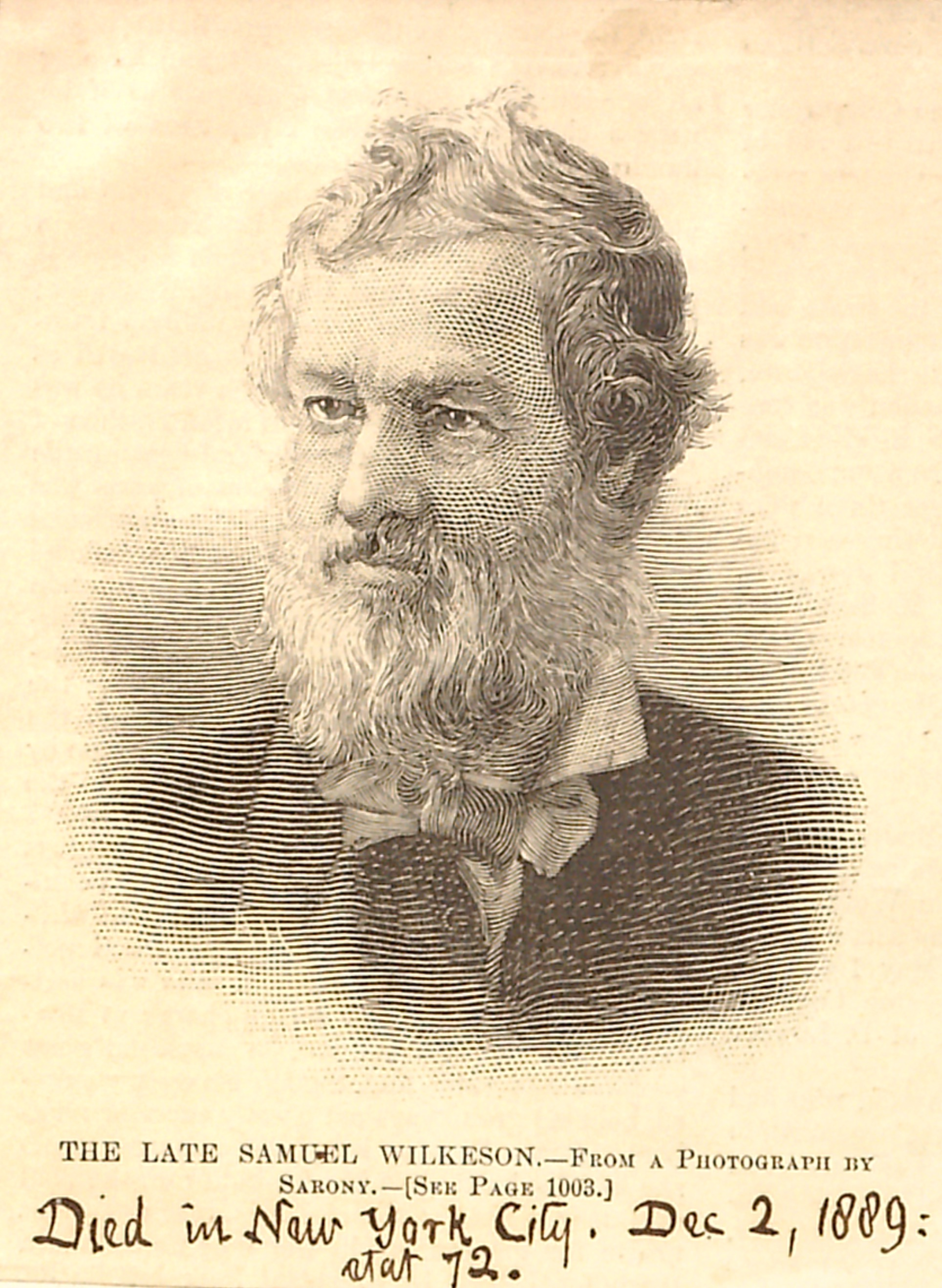 Newspaper engraving of Samuel Wilkeson.Title: Thomas Butler Gunn Diaries: Volume 19, page 55, December 2, 1889 [newspaper clipping]